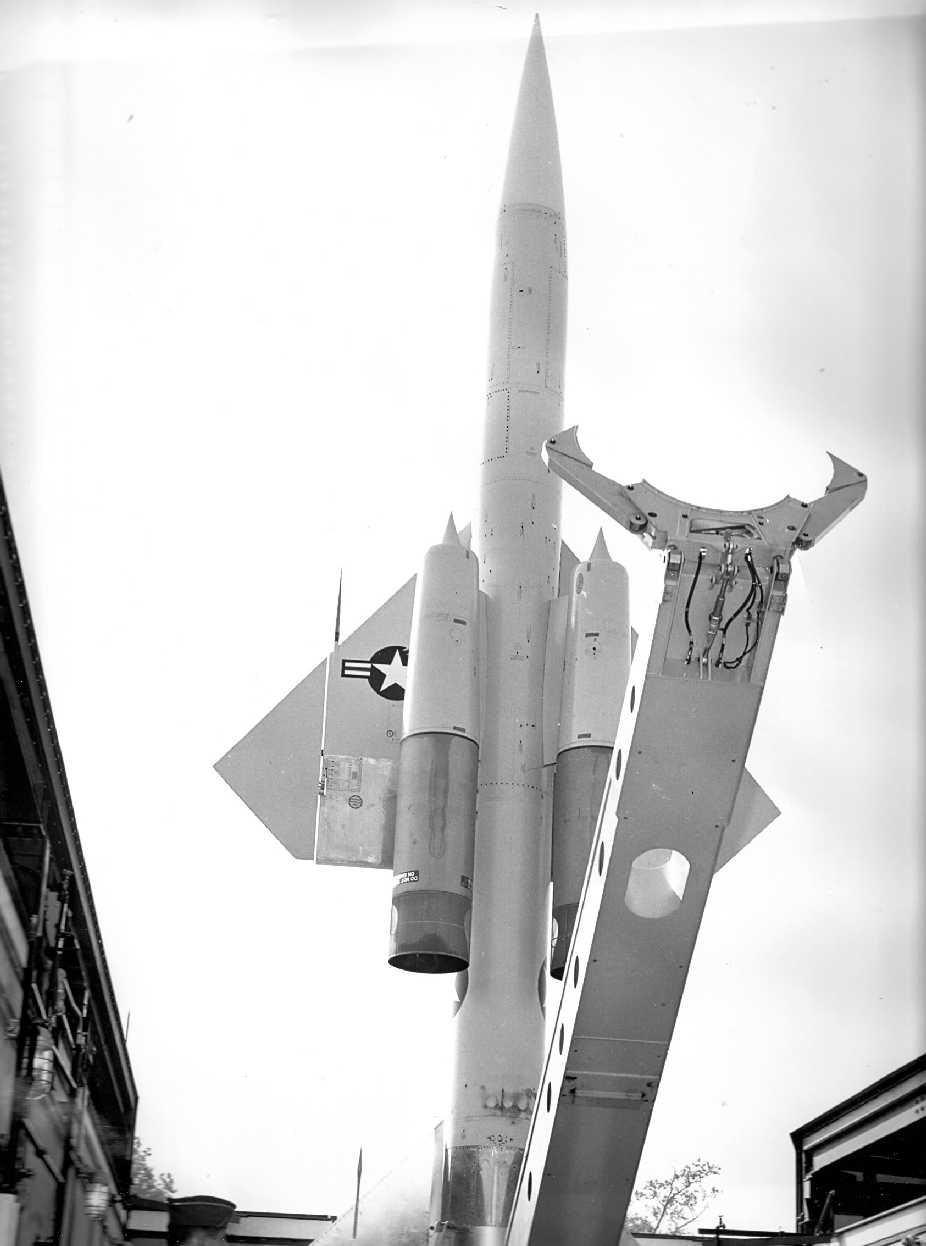 A 1965 USAF Public Affairs photo of a BOMARC missile elevated in its Langley shelter.